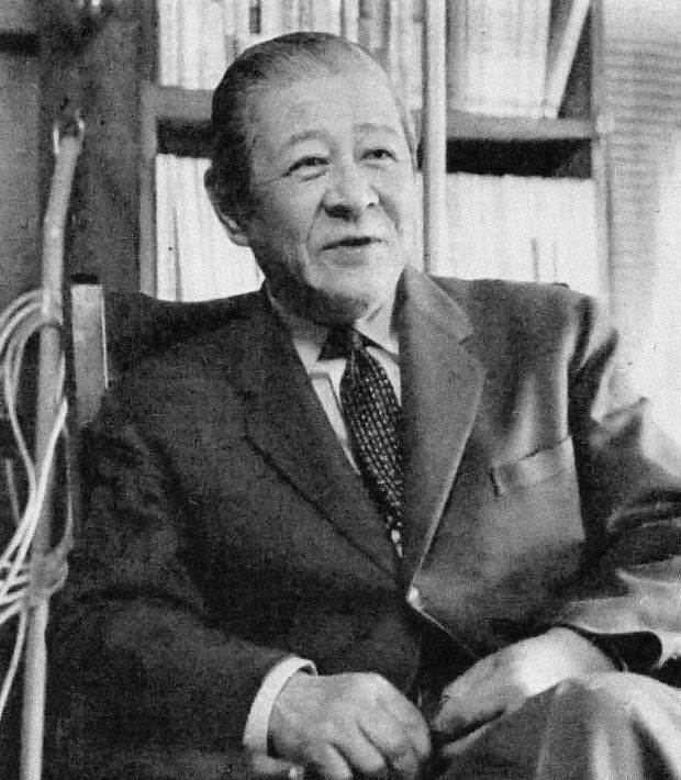 Kenzo Nakajima